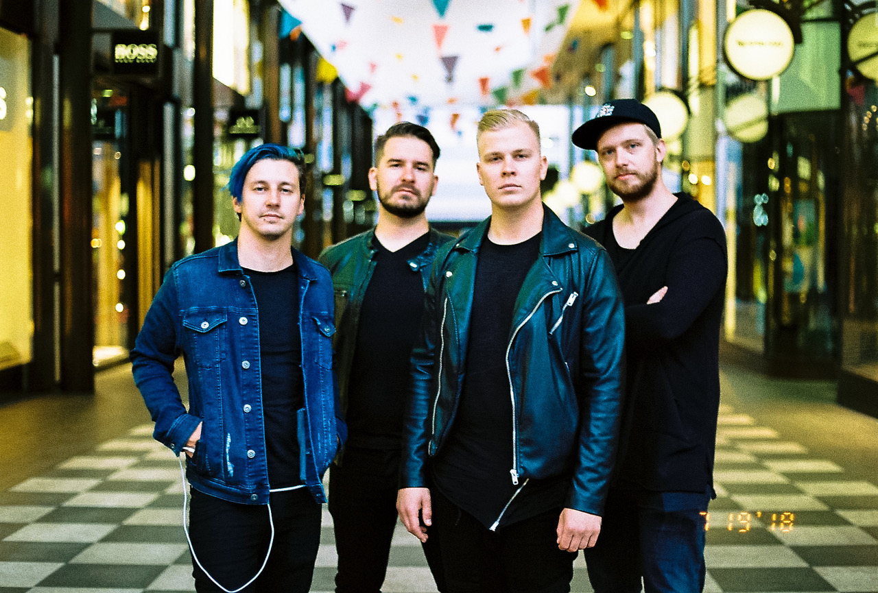 Define Me band